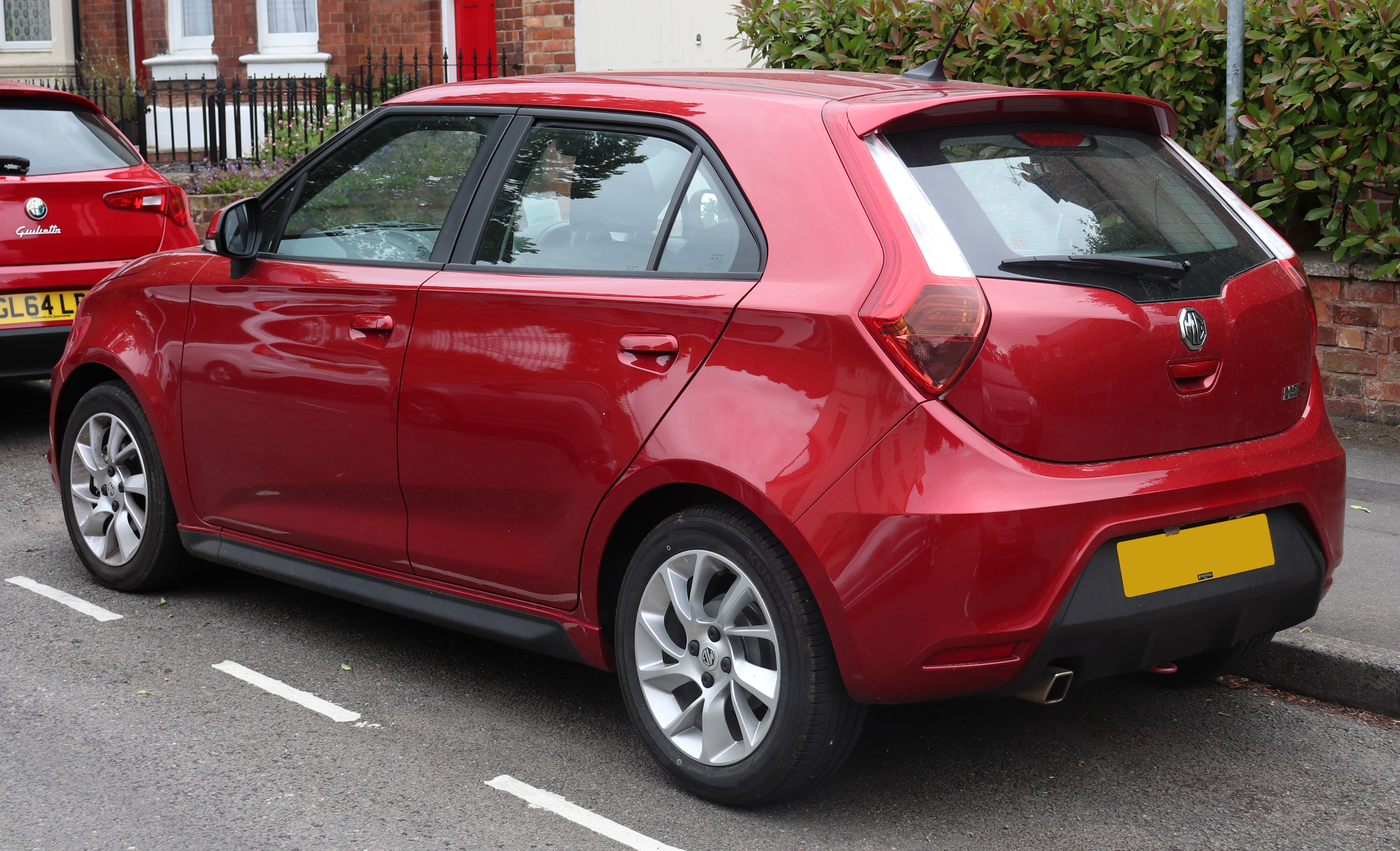 2018 MG 3 Form Sport VTi-Tech 1.5 Rear Taken in Warwick